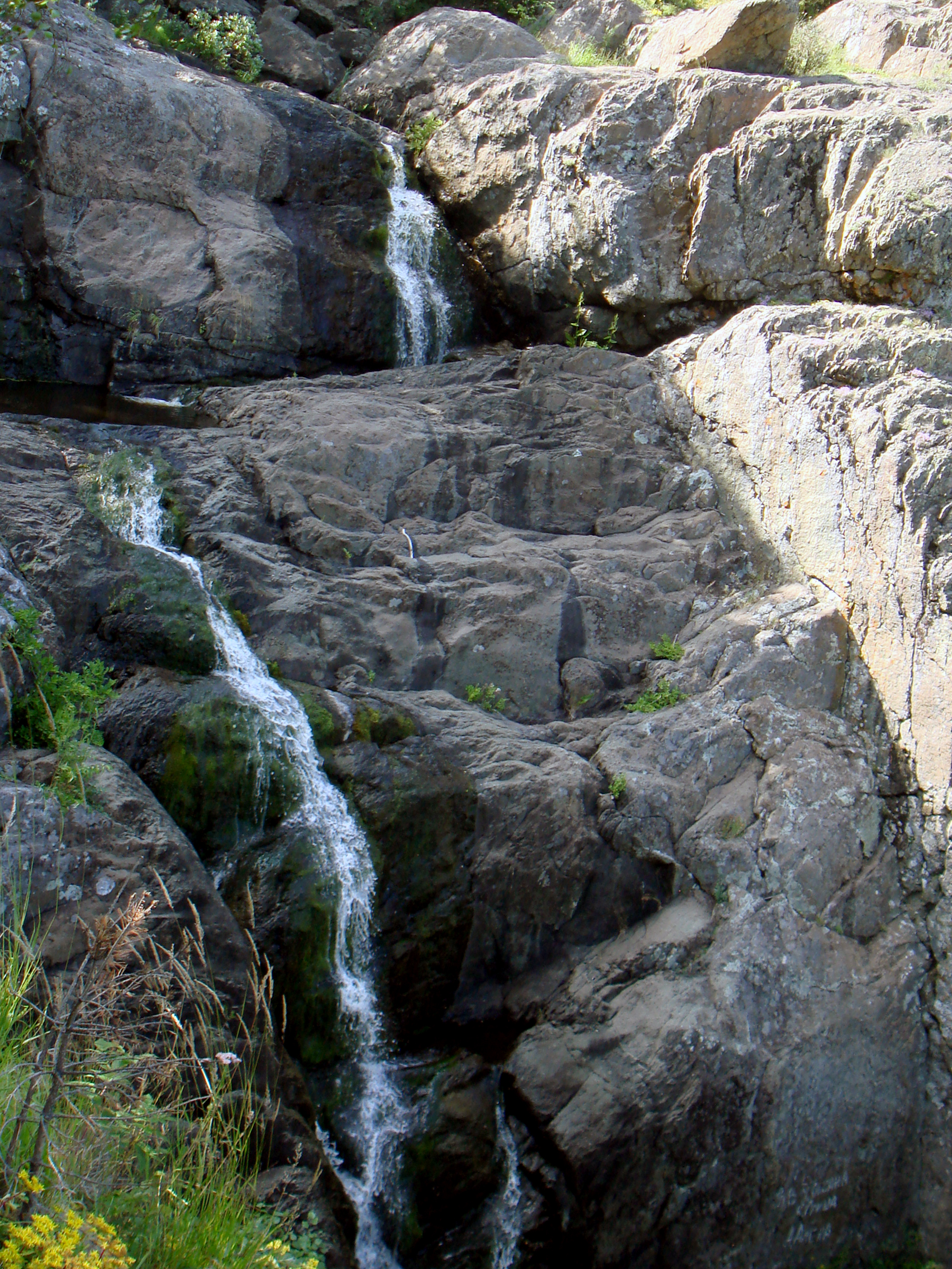 Hadelsha (aka Ibragimovsky) waterfall at autumn. Higher cascade.